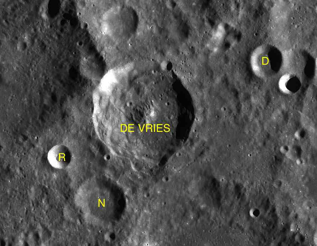 Part of the chart LAC-104 used for the presentation